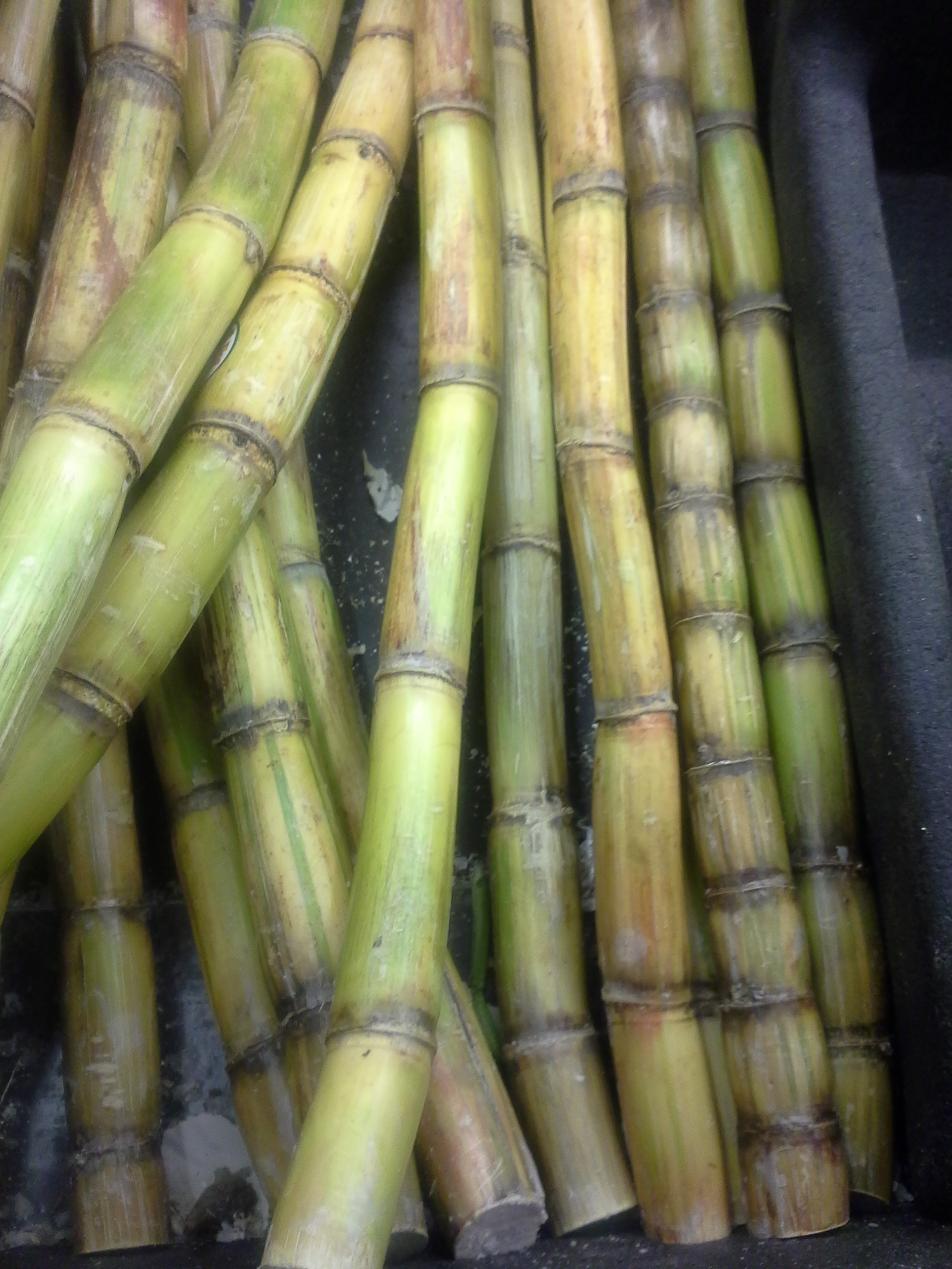 This is a close up shot of sugar cane, taken at a grocery store in North America.